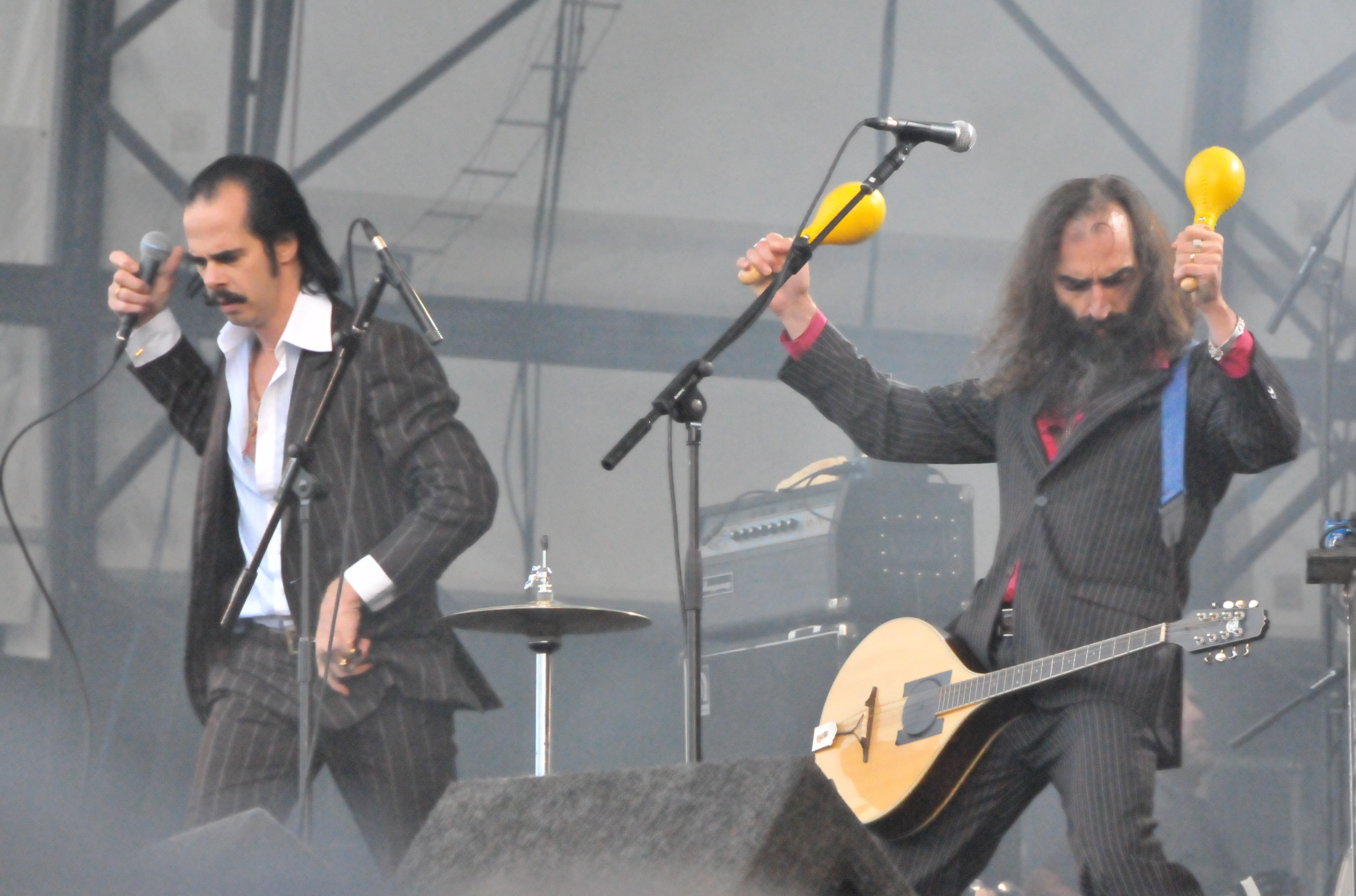 Grinderman, Latitude Festival, 2008